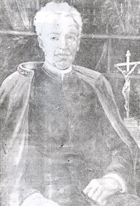 Juan Maria Cespedes Vivas